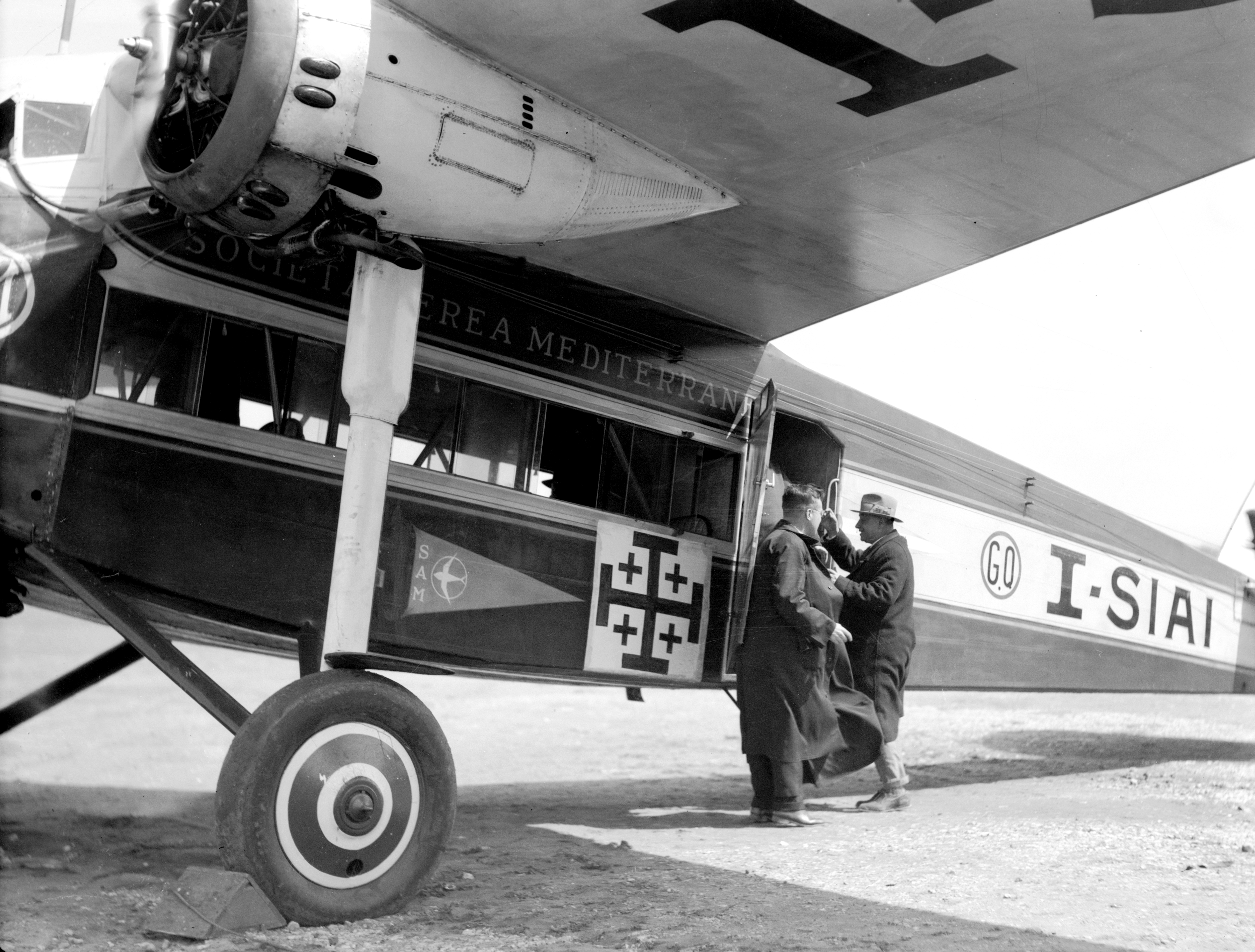 Centennial Easter celebrations. Holy Year. Vatican representative from Rome arriving at Ramleh. The papal plane landing on April 2nd, 1933.